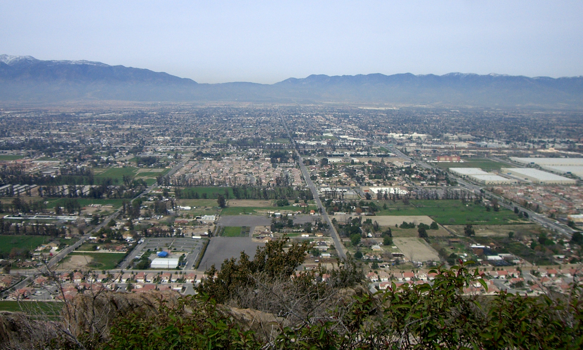 A view of Fontana, California